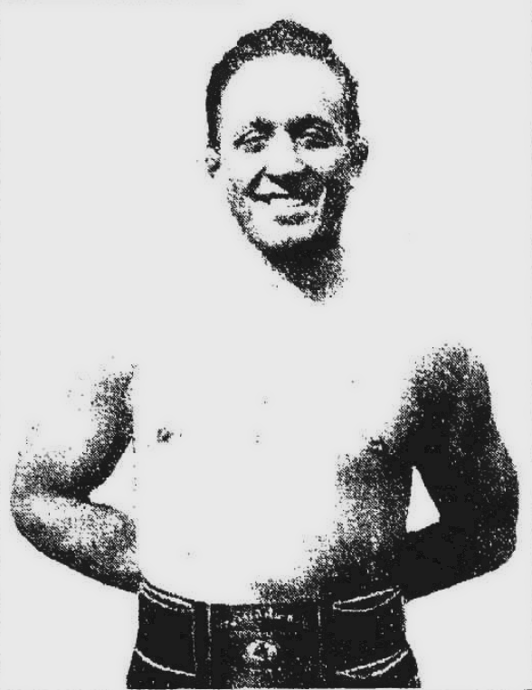 Original Caption: Billy Meeske, shown wearing the belt for the world's light heavyweight championship, which he held for a fortnight.